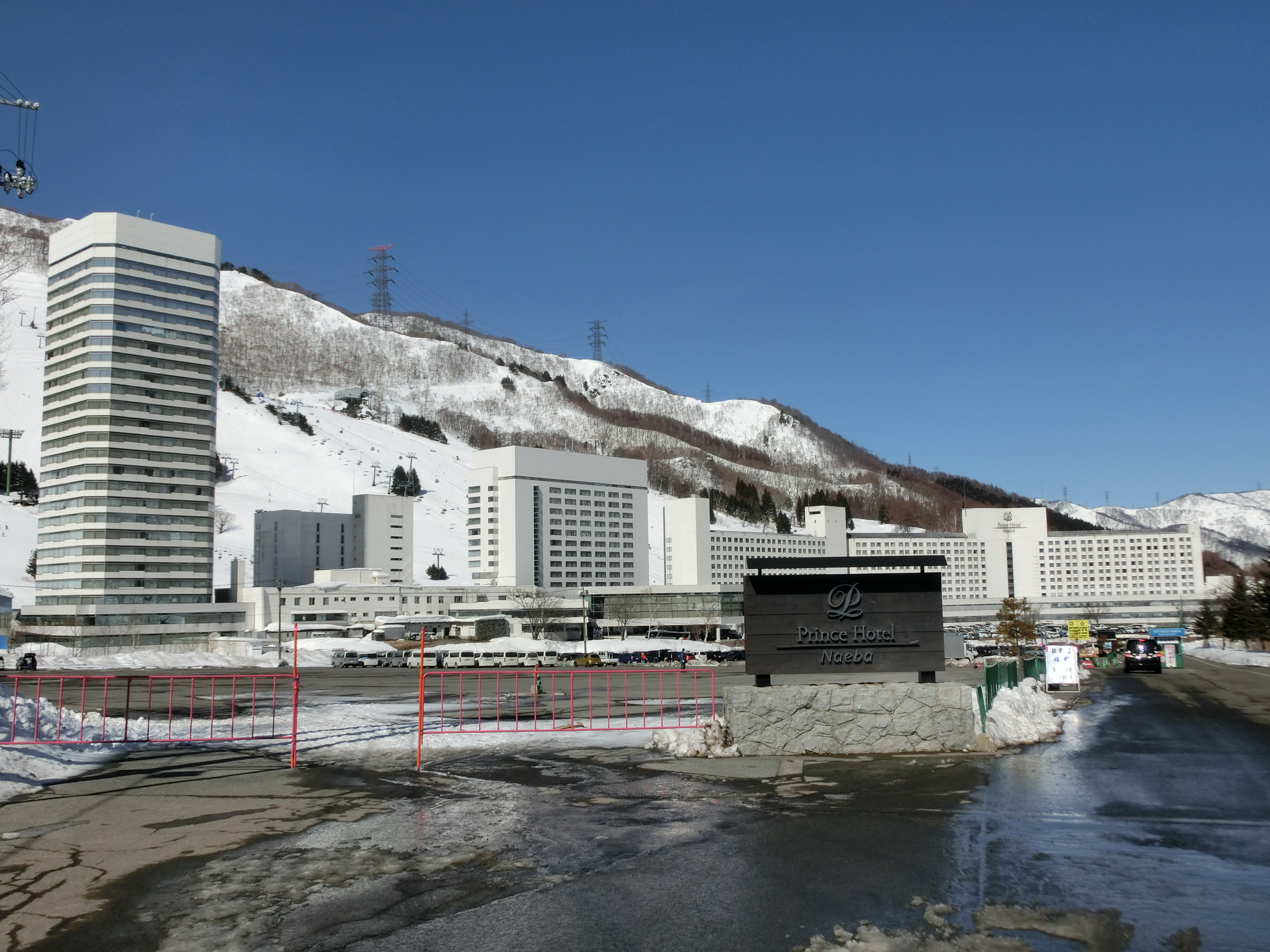 Naeba Prince Hotel